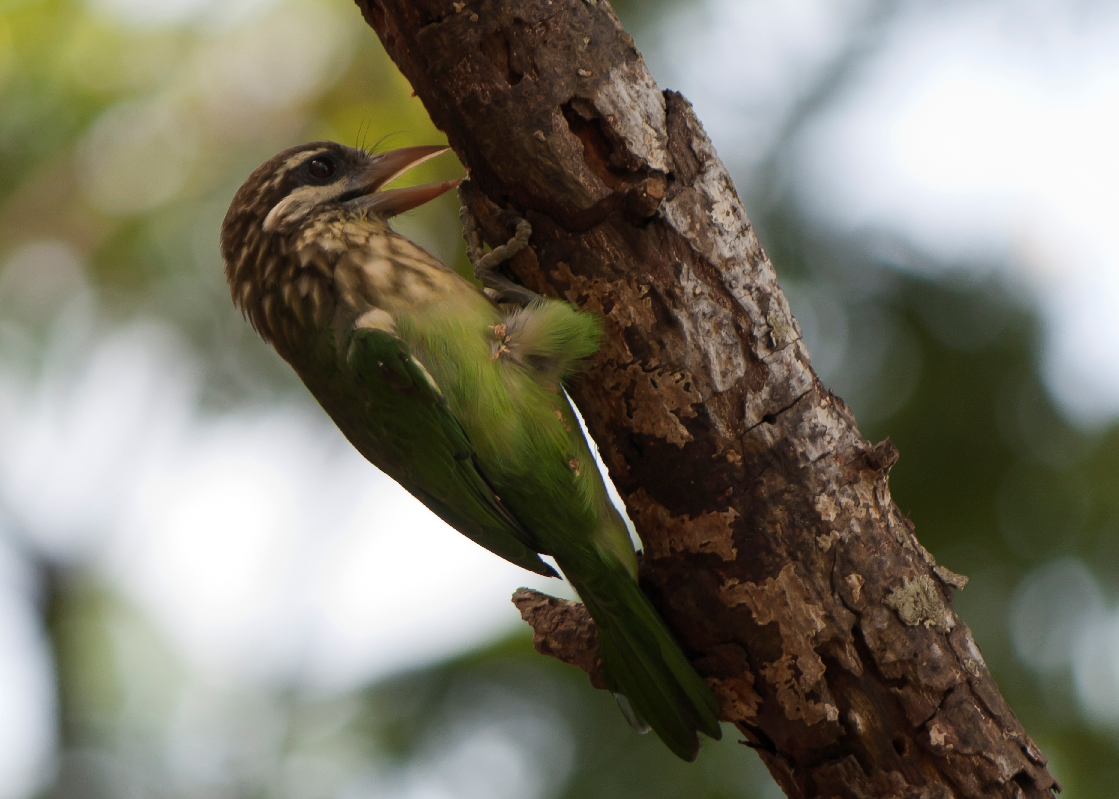 The White-cheeked Barbet or Small Green Barbet (Megalaima viridis) is a species of barbet found in southern India. It is very similar to the more widespread Brown-headed Barbet (or Large Green Barbet) (Megalaima zeylanica) but this species has a distinctive supercilium and a broad white cheek stripe below the eye and is endemic to the forest areas of the Western Ghats and adjoining hills. (Desc from Wikipedia)